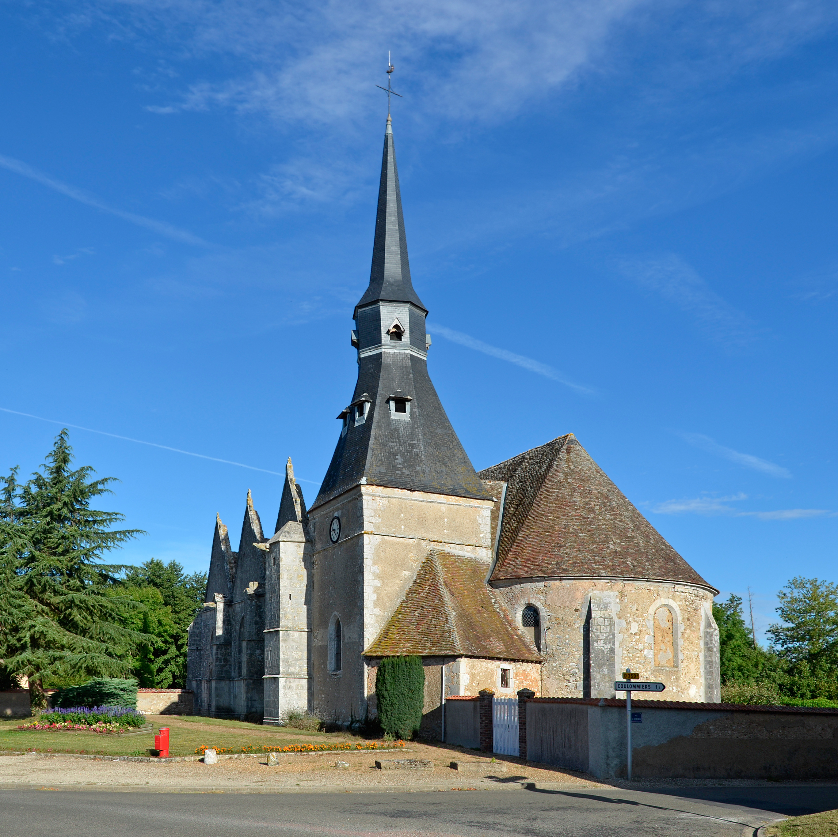 Notre-Dame church - Alluyes, Eure-et-Loir, France. .